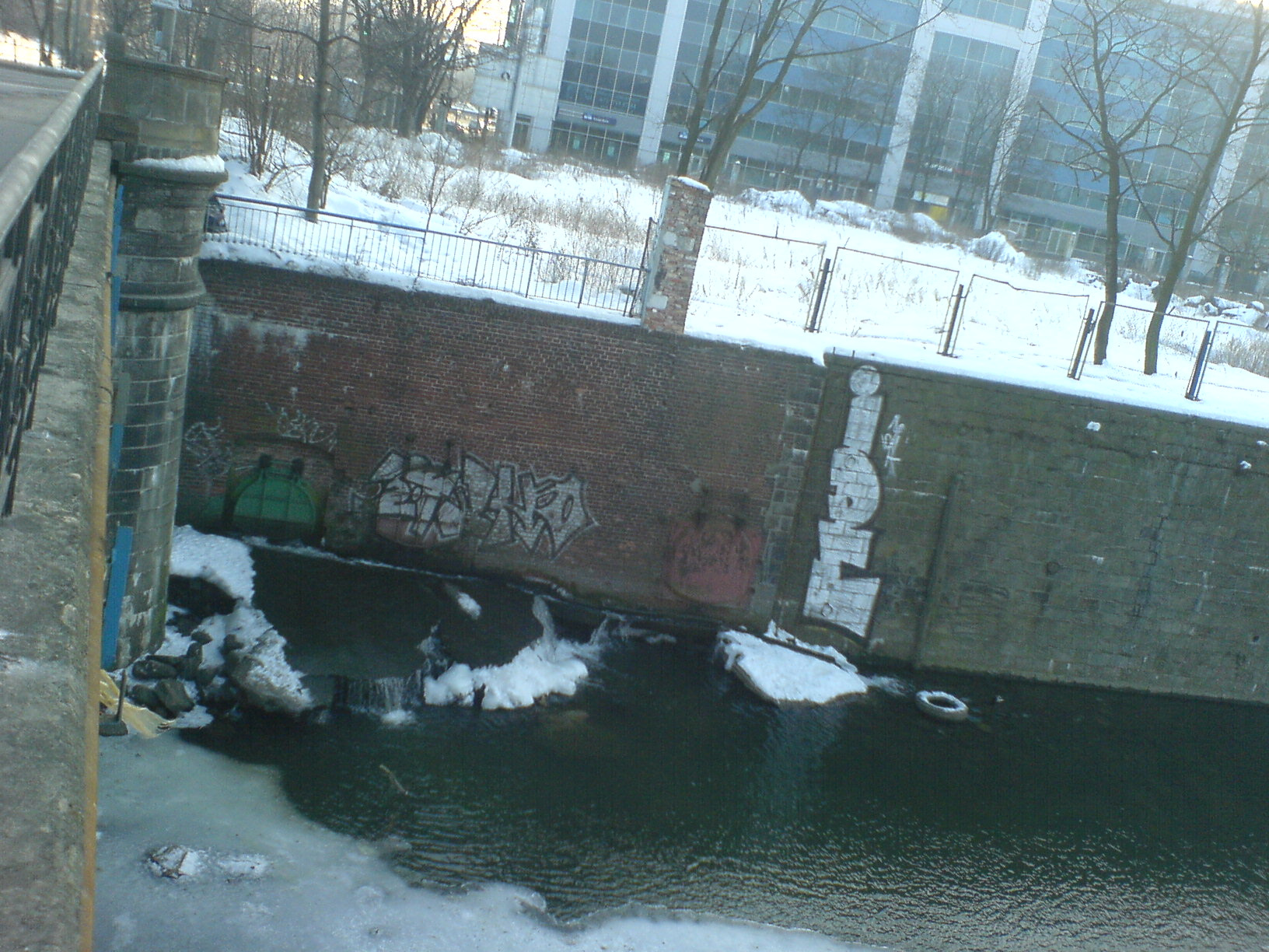 Wroclaw, South Oder River